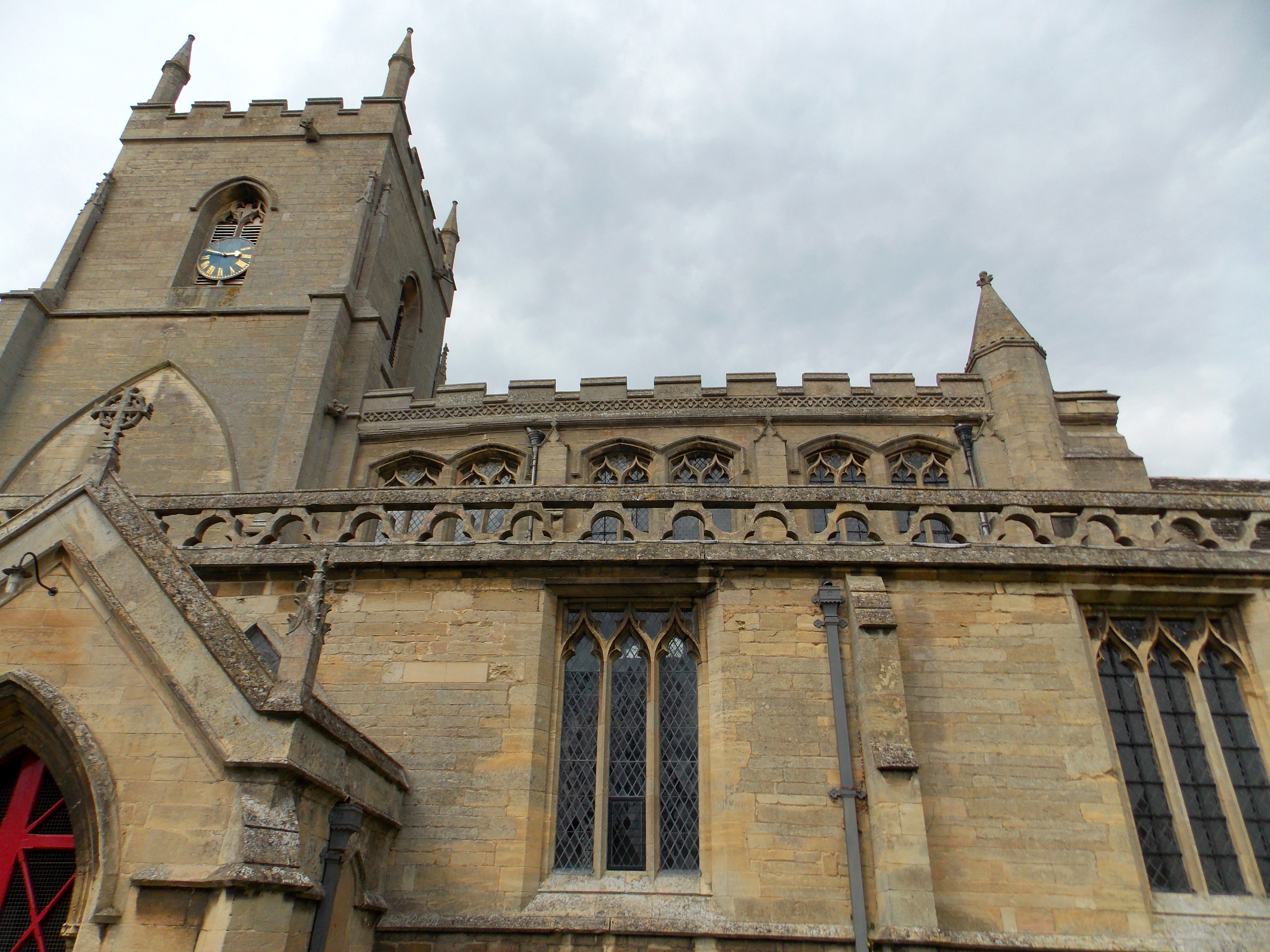 Clerestory, south aisle and west tower of St James' parish church, Aslackby, Lincolnshire, seen from the south